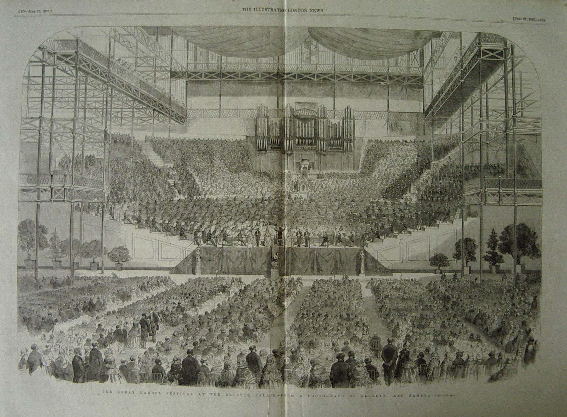 THE GREAT HANDEL FESTIVAL AT THE CRYSTAL PALACE 1857